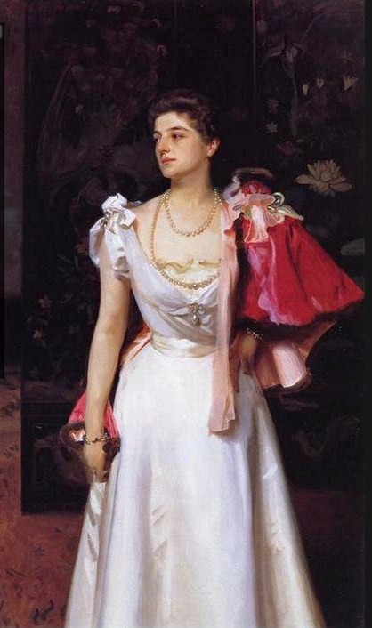 (Sophie Illarionovna) Demidova, Princess of San Donato -- (1853-1917), Oil on canvas (66 x 38 in).by John Singer Sargent (1895-1896), Toledo Museum of Art, Ohio